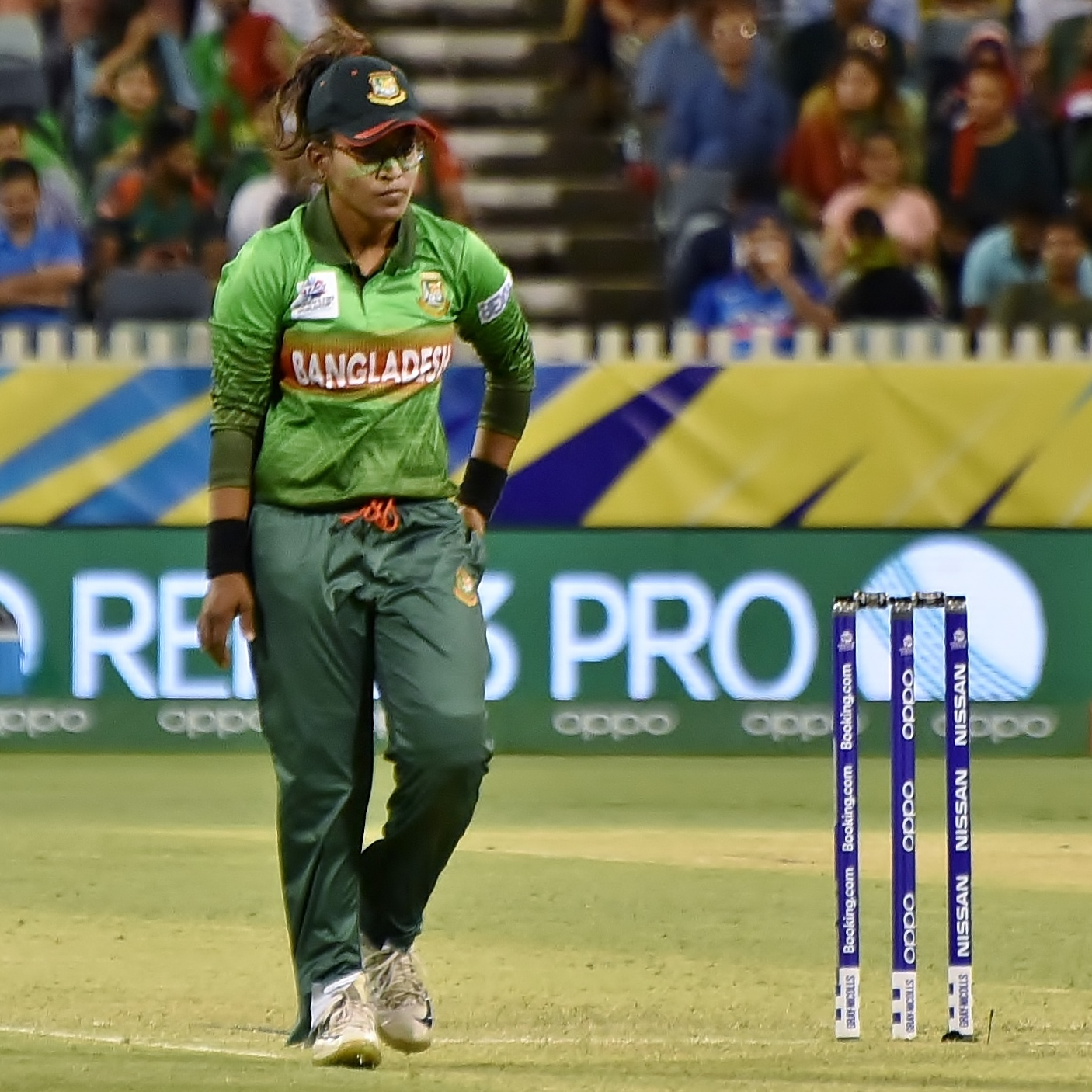 Rumana Ahmed playing for Bangladesh against India during their 2020 ICC Women's T20 World Cup match at the WACA Ground in Perth, Australia